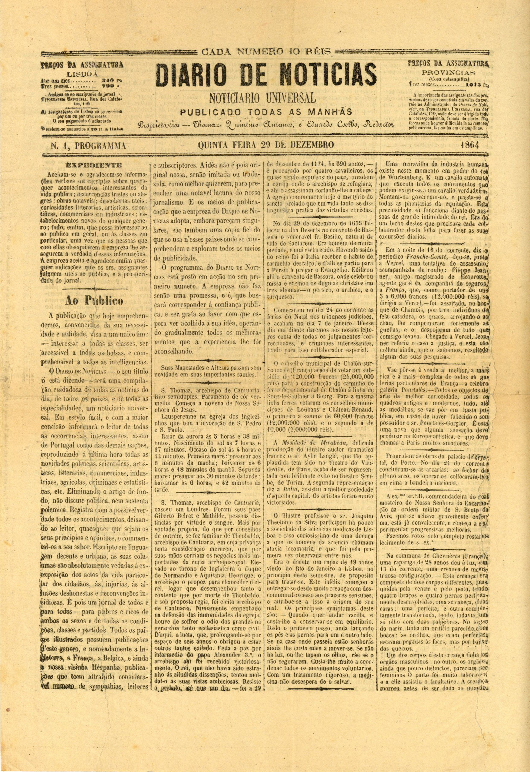 First isse of the Portuguese newspaper "Diário de Notícias" (29 December, 1864).